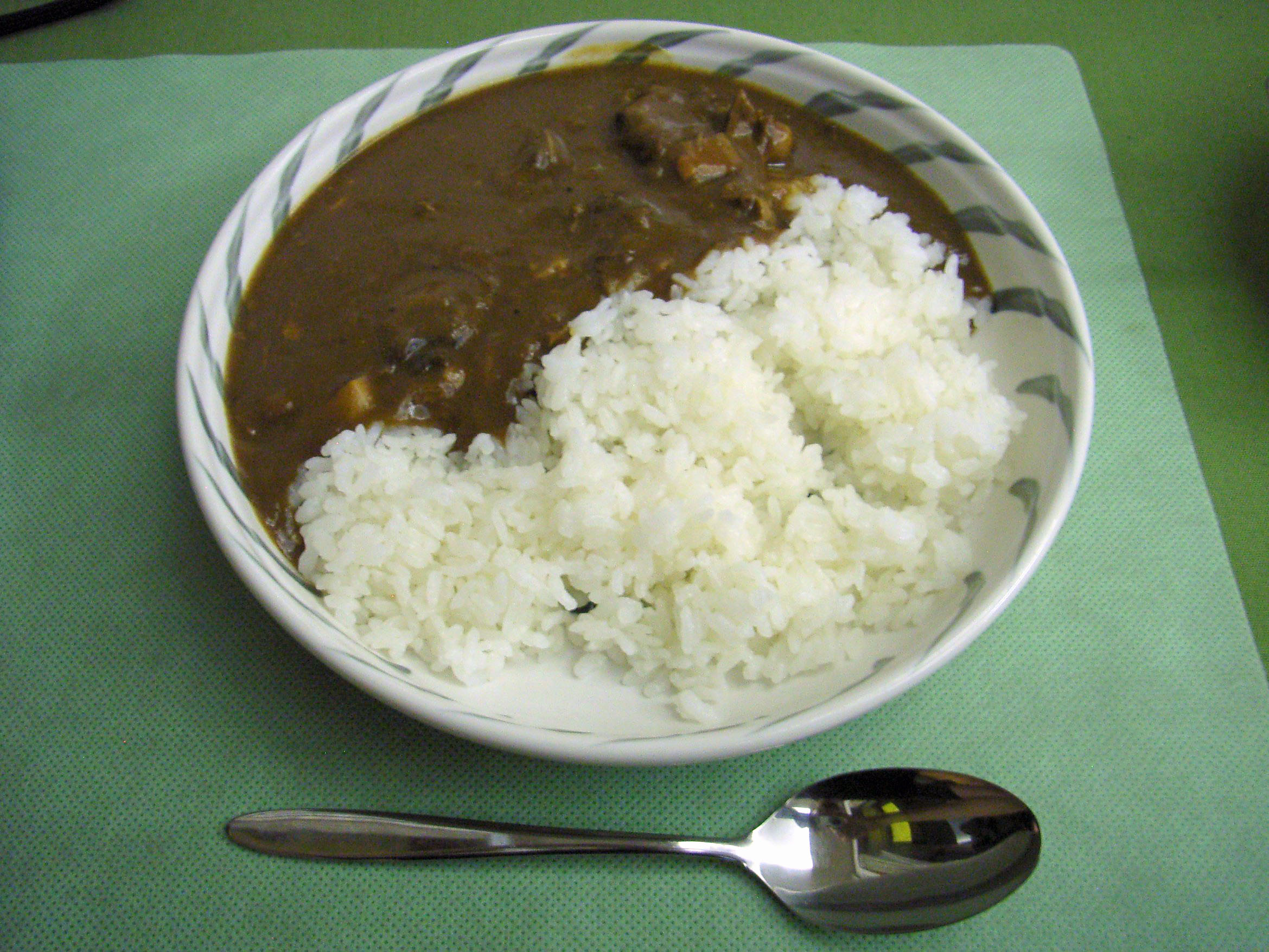 Dinner at River's Edge . Delicious beef curry.